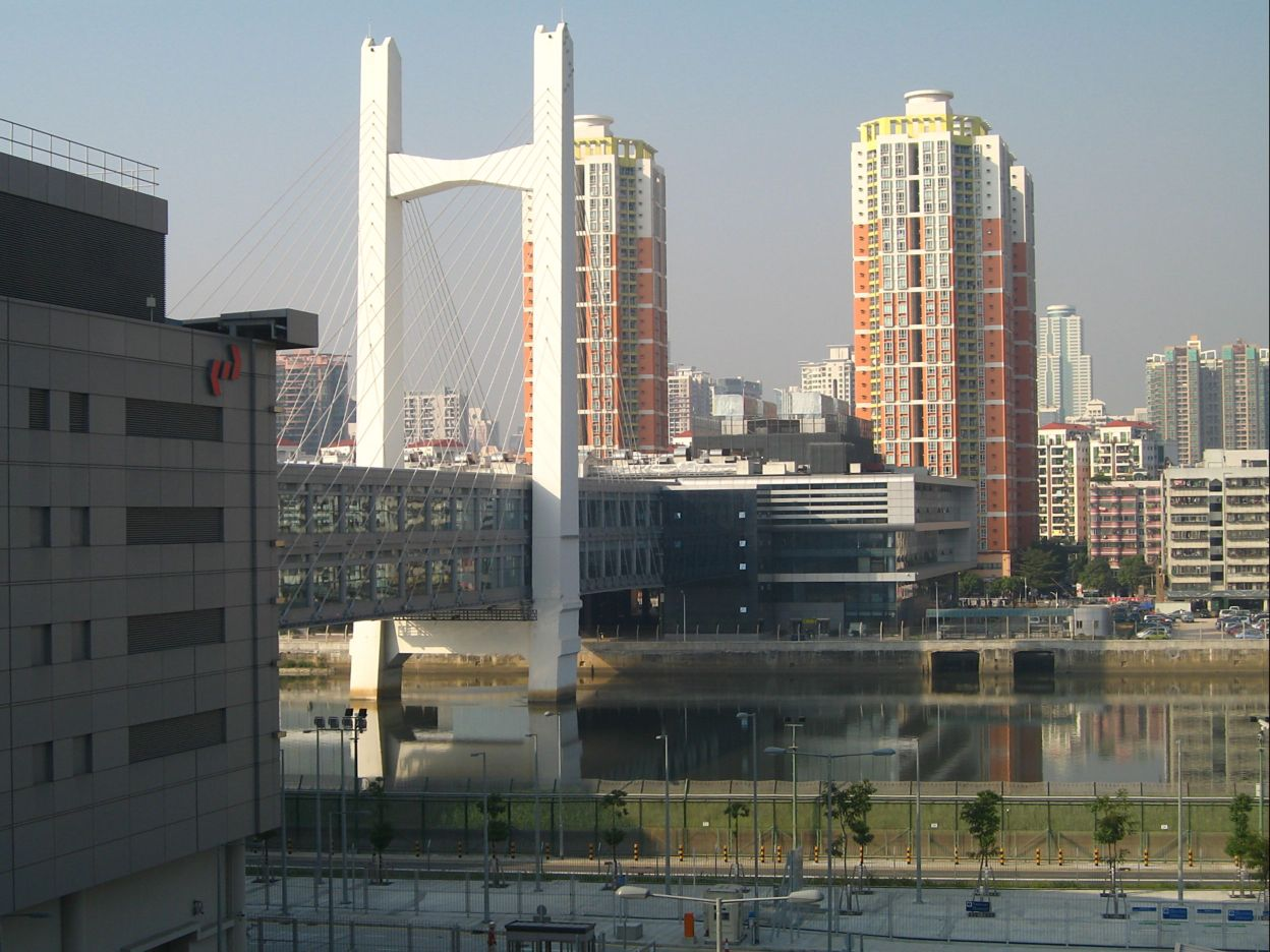 Double decked bridge across the Shenzhen River between Lok Ma Chau in Hong Kong (left) and Futian Port in Shenzhen, China